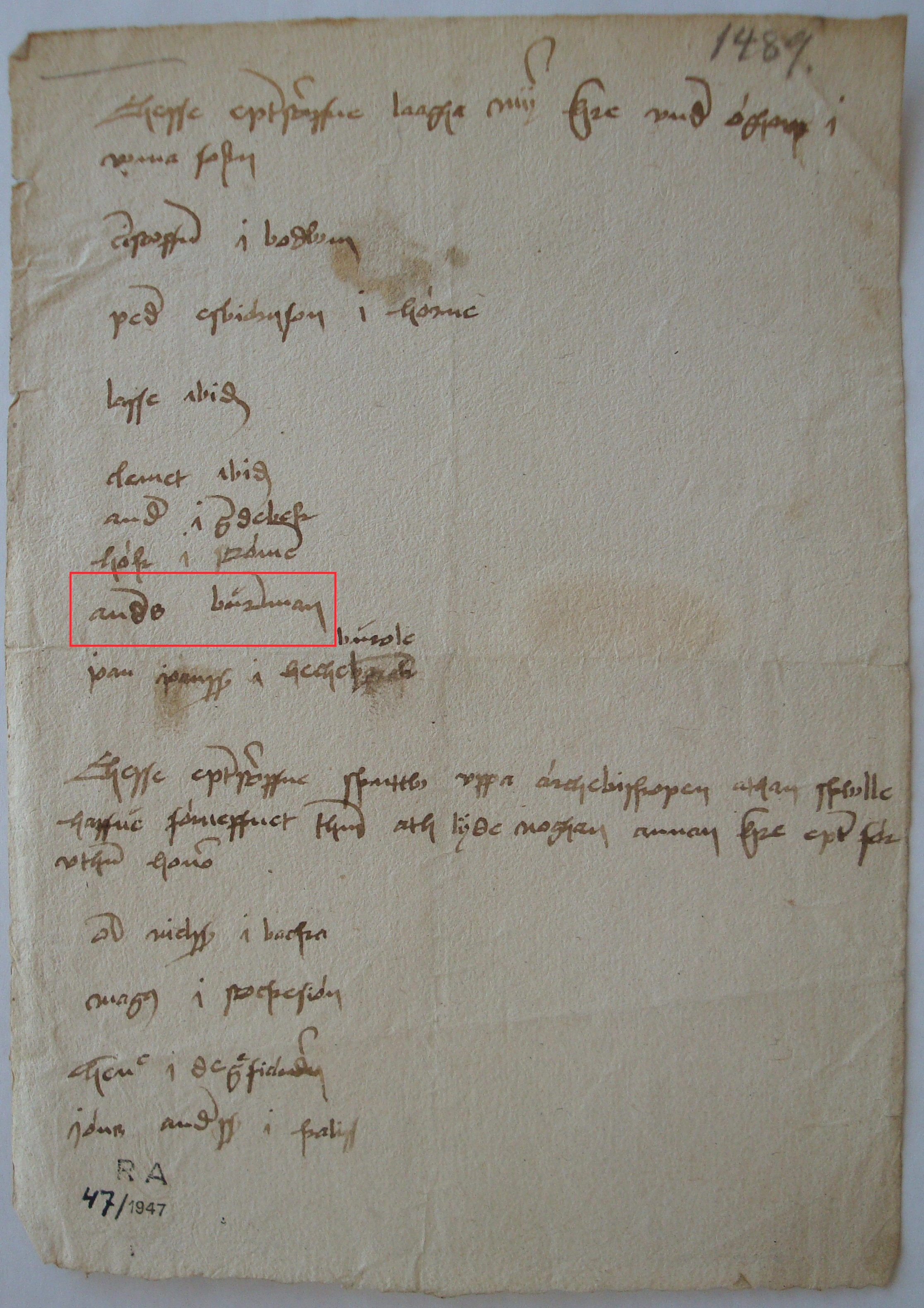 Document from around 1508–1509 in the Sture archives (in the National Archives, Stockholm), listing farmers in the parish of Umeå in northern Sweden who seem to have refused to pay tax before having seen the archbishop's letter.